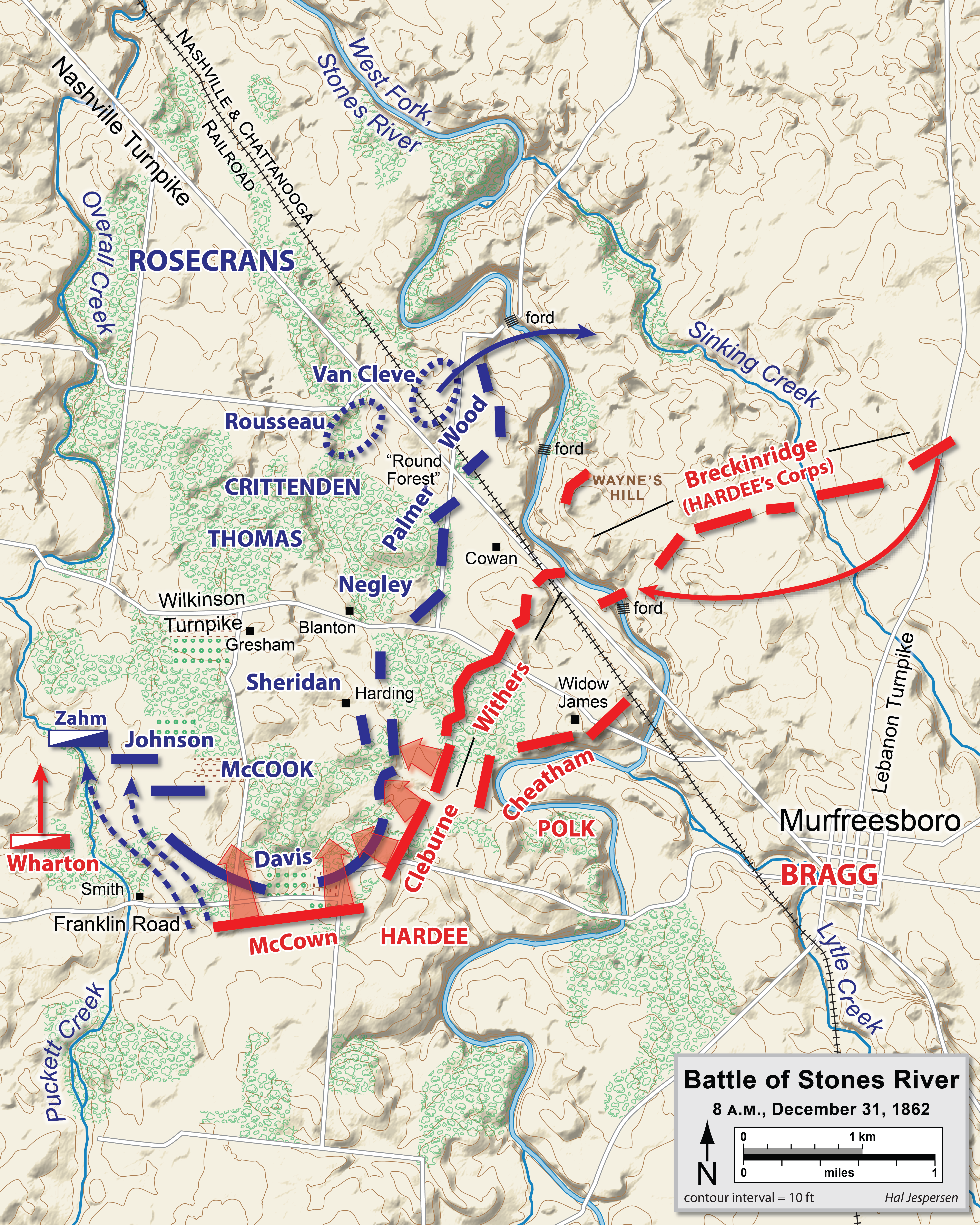 (Map of the Battle of Stones River of the American Civil War, actions at 0800, December 31, 1862. Drawn by Hal Jespersen in Adobe Illustrator CS6. Graphic source file is available at )